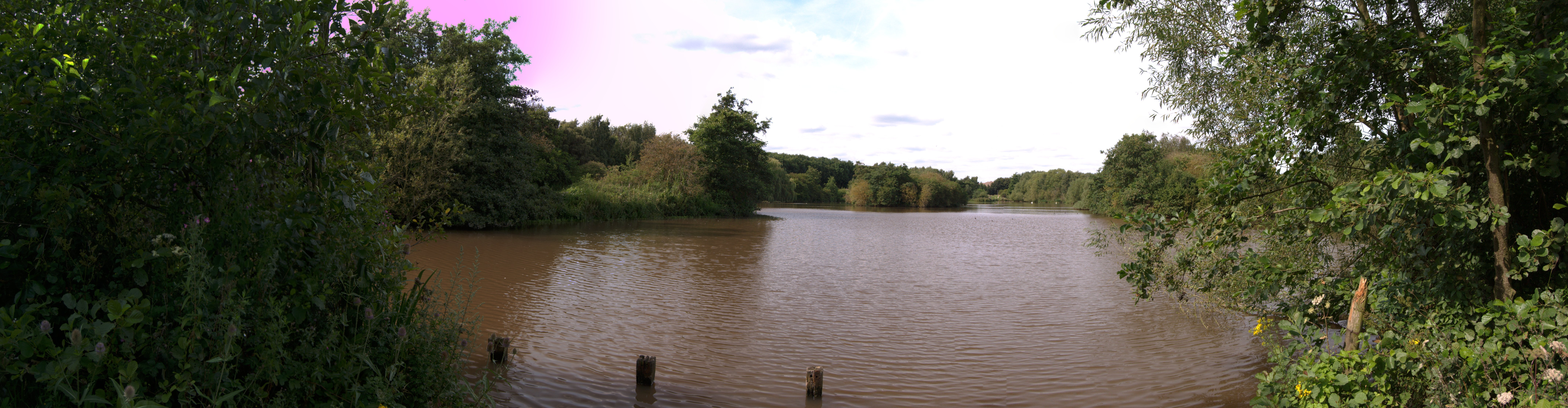 Panorama made using HUGIN of Mill Lakes looking East to West.